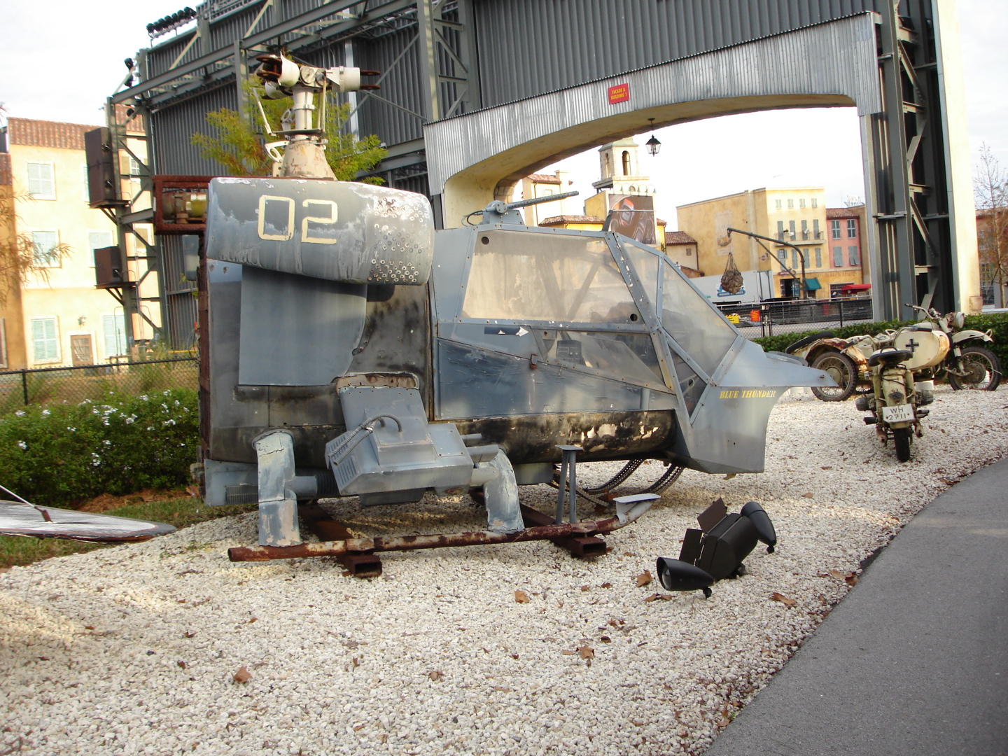 Blue Thunder, MGM Studios Back-lot tour. (Right side view)